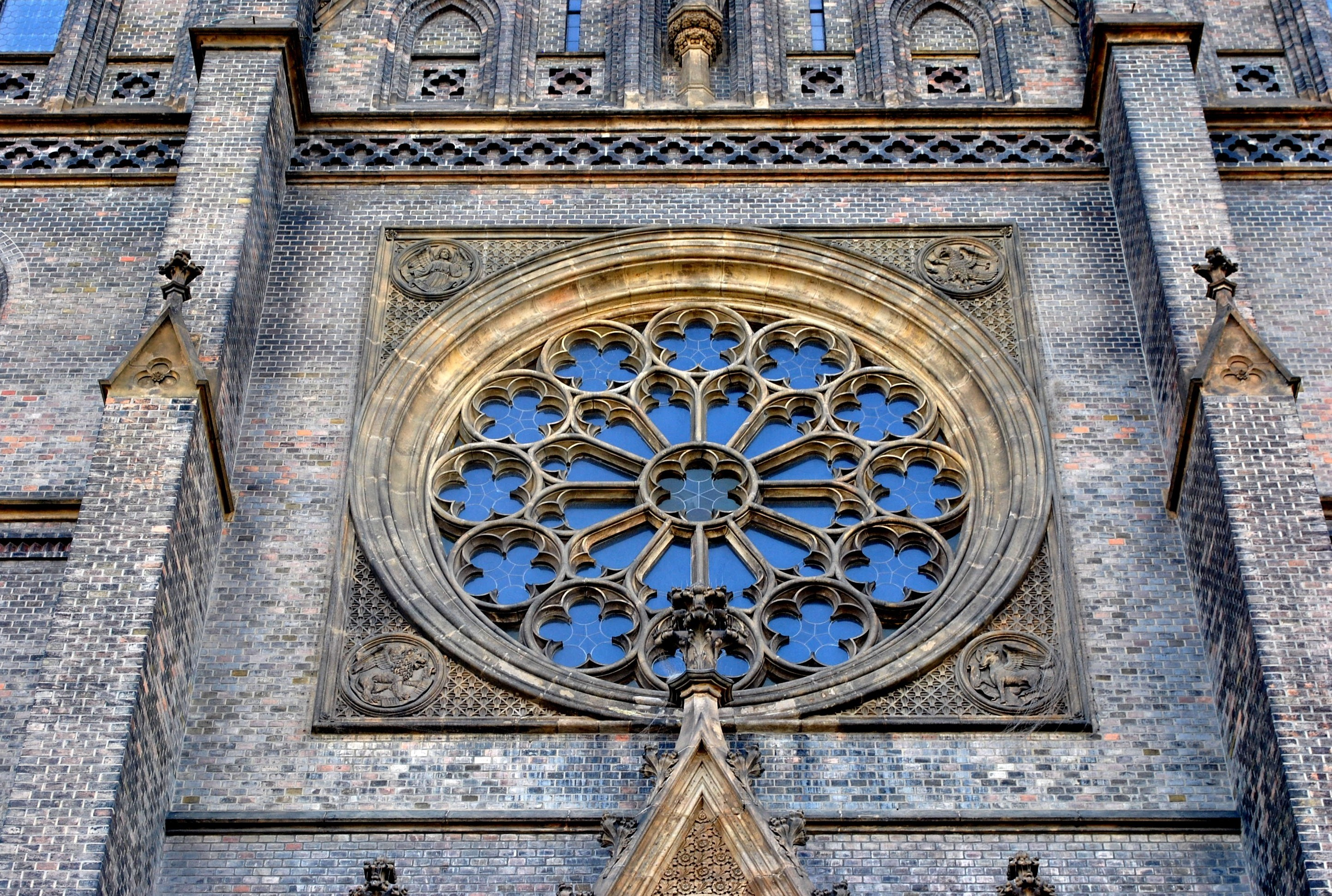 The stained-glass window.